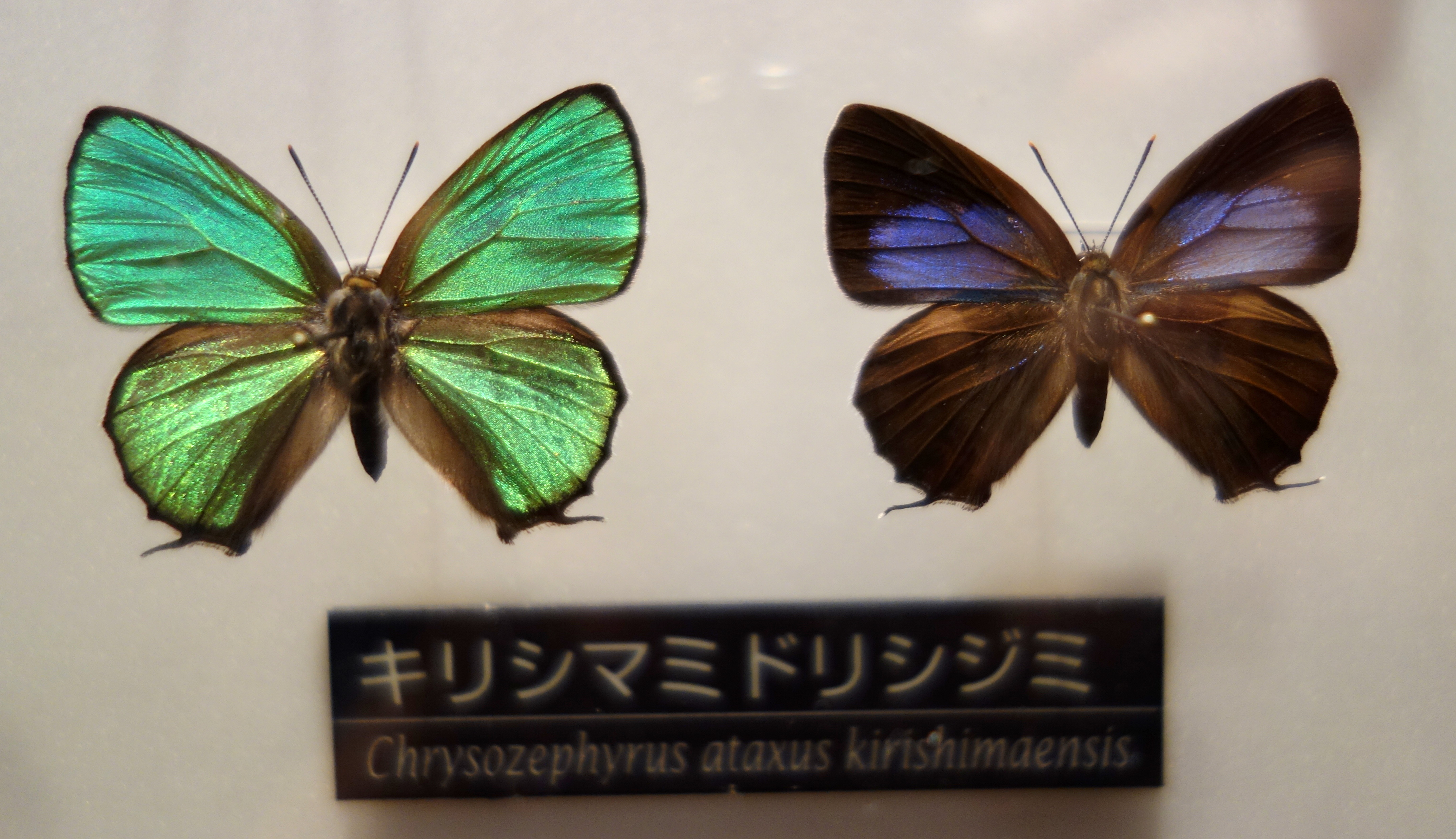 Exhibit in the National Museum of Nature and Science, Tokyo, Japan.